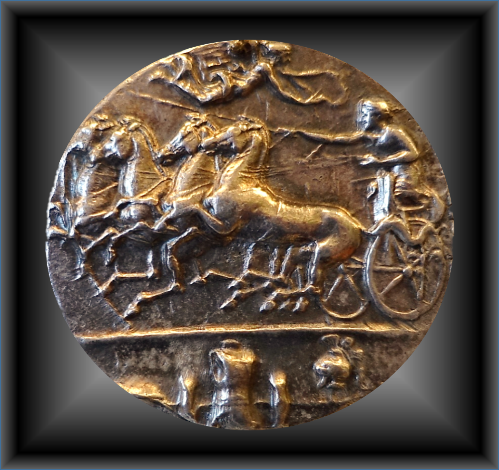 Coins of Syracuse 400 b.C.